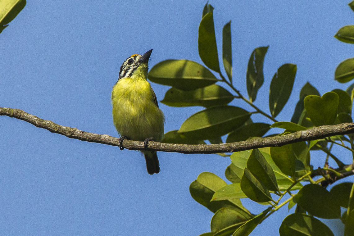 An Yellow-fronted Tinkerbird (Pogoniulus chrysoconus) in the area of the Shai Hills (near of the lower Volta, Eastern Region, Ghana)